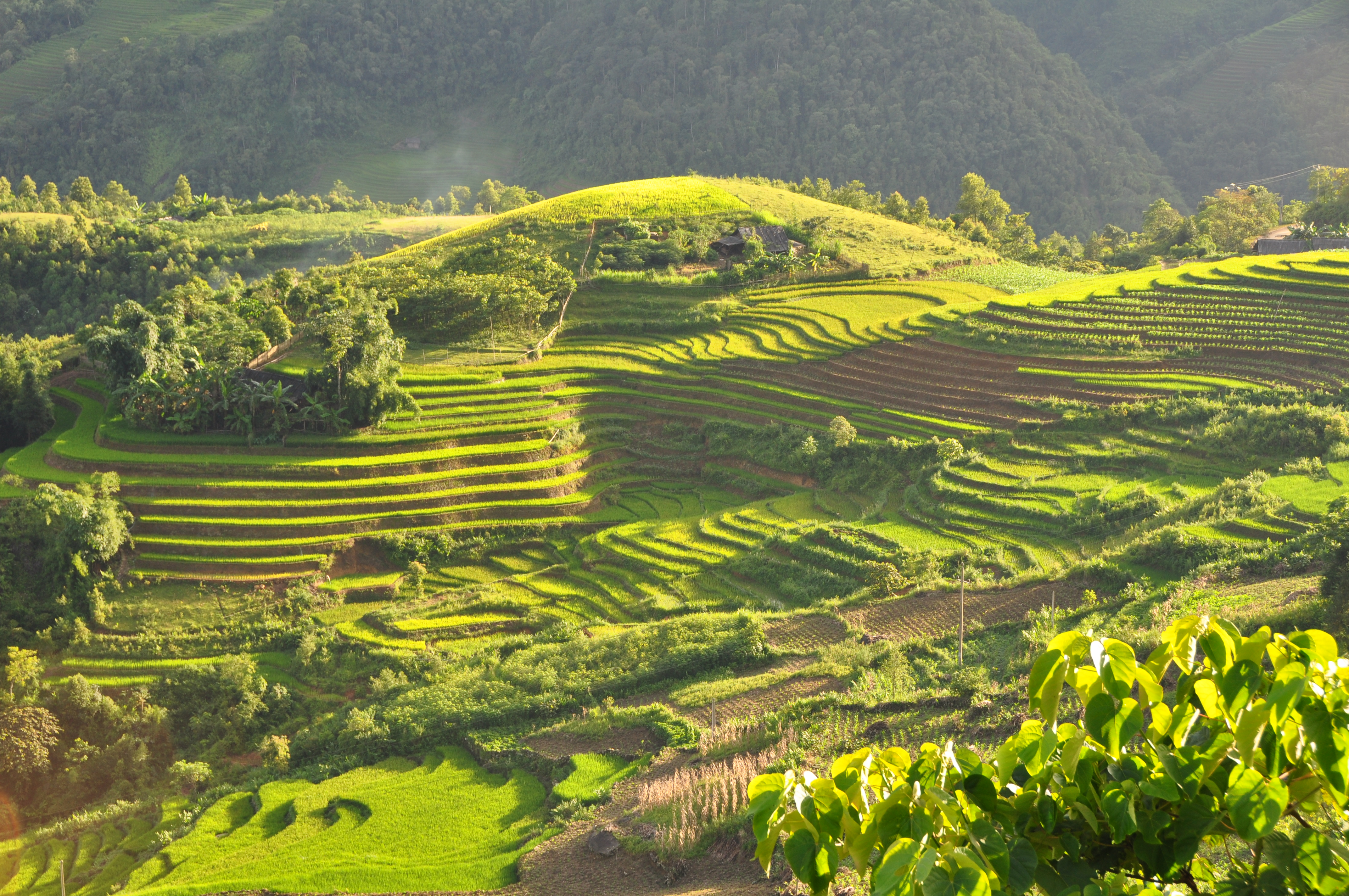 Terraced rice fields in a valley in Sa Pa, Vietnam